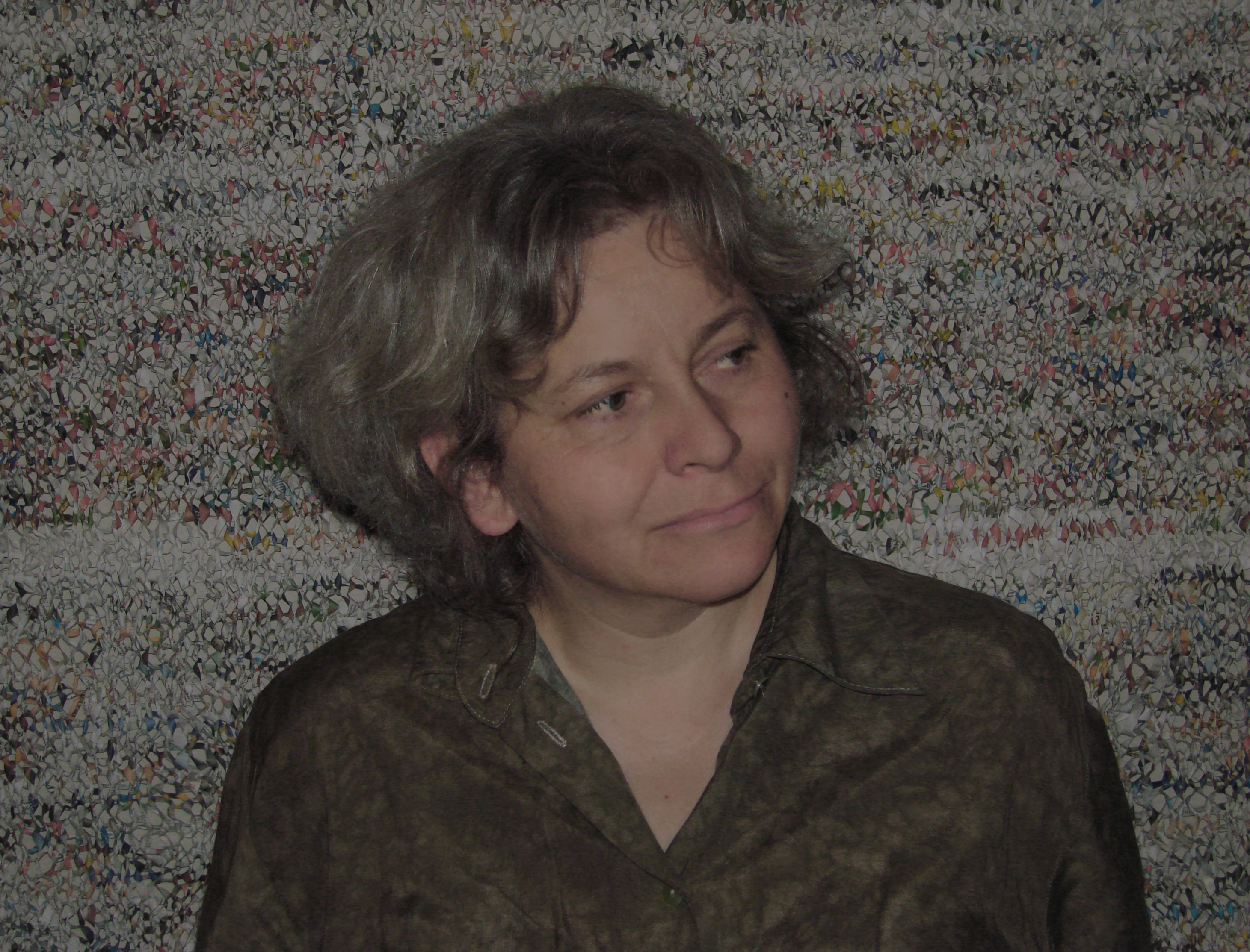 Katarzyna Jozefowicz art sculpture contemporary art avangade